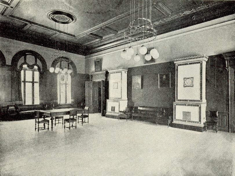 Gästrike-Hälsinge nation, student society at Uppsala University in Sweden. The meeting and banquet hall (nationssalen).